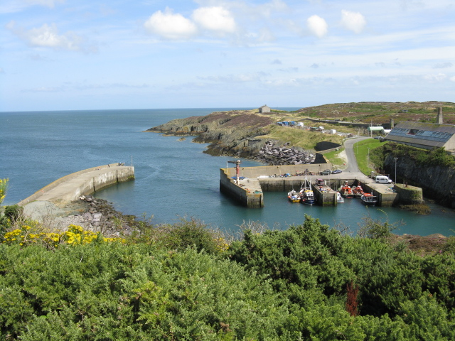 Amlwch Port From The Headland This is the "new" harbour. The original is out of sight to the right.